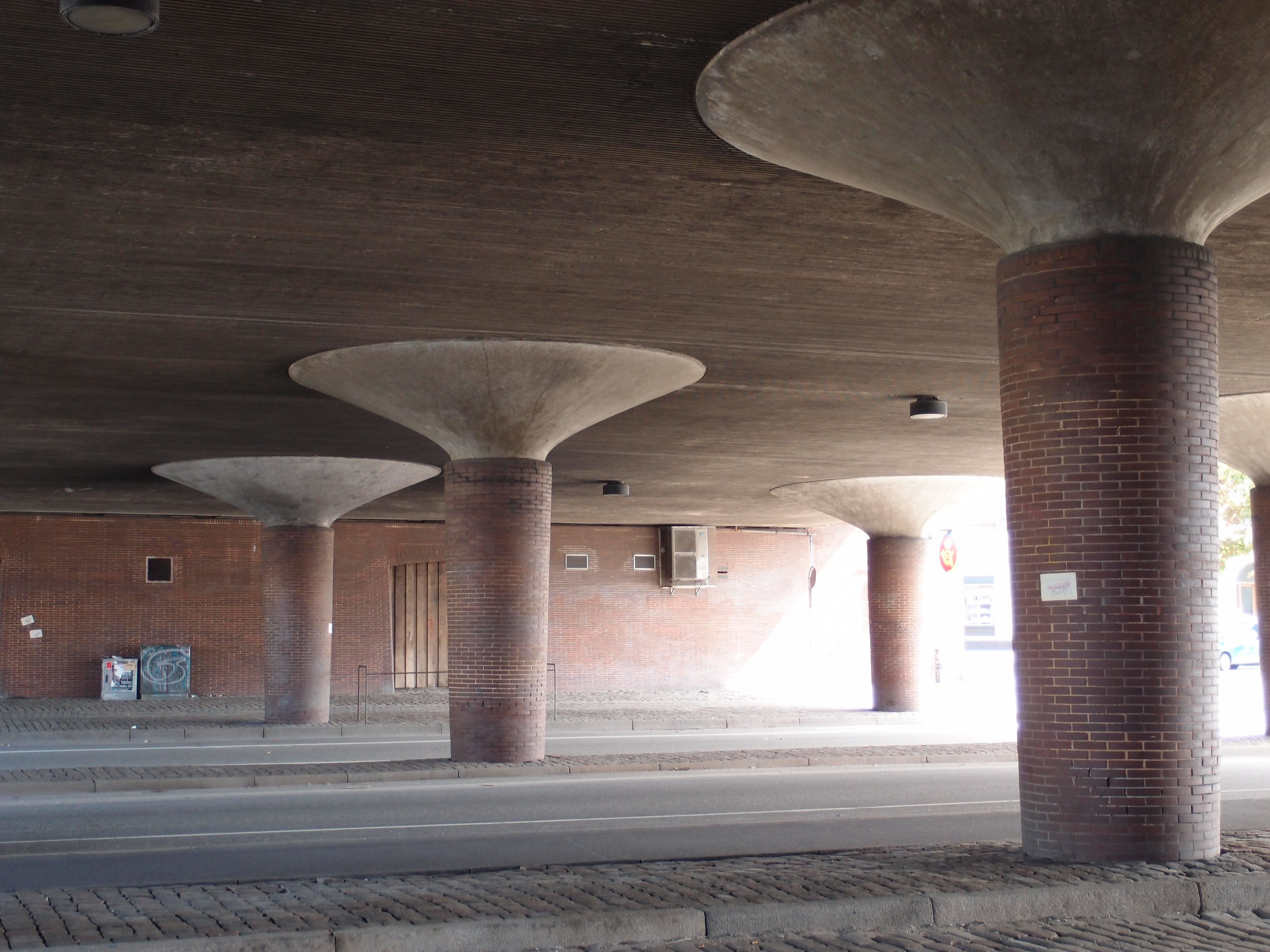 Support columns under Langebro from 1954 in Copenhagen i Denmark.